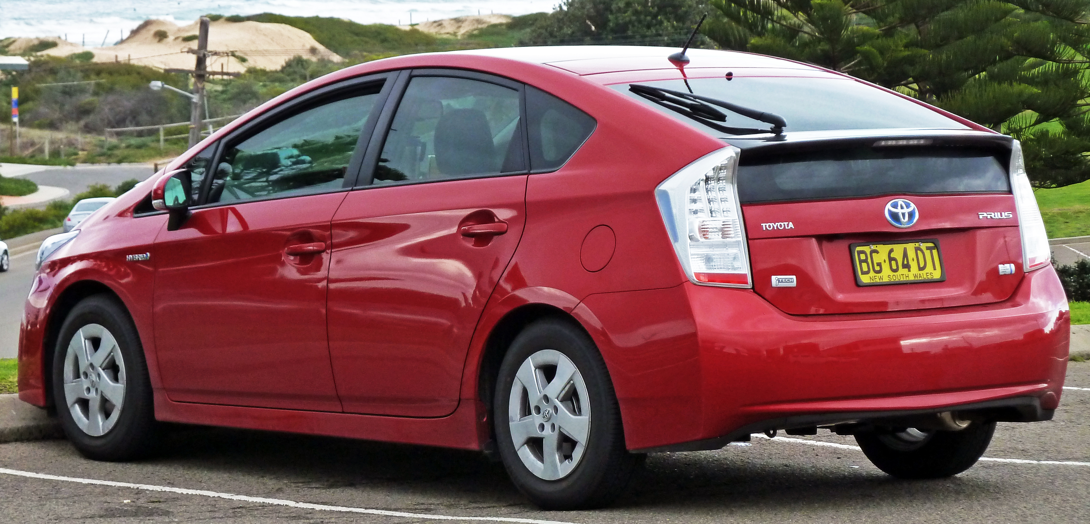 2010 Toyota Prius (ZVW30R) i-Tech liftback. Photographed in Cronulla, New South Wales, Australia.